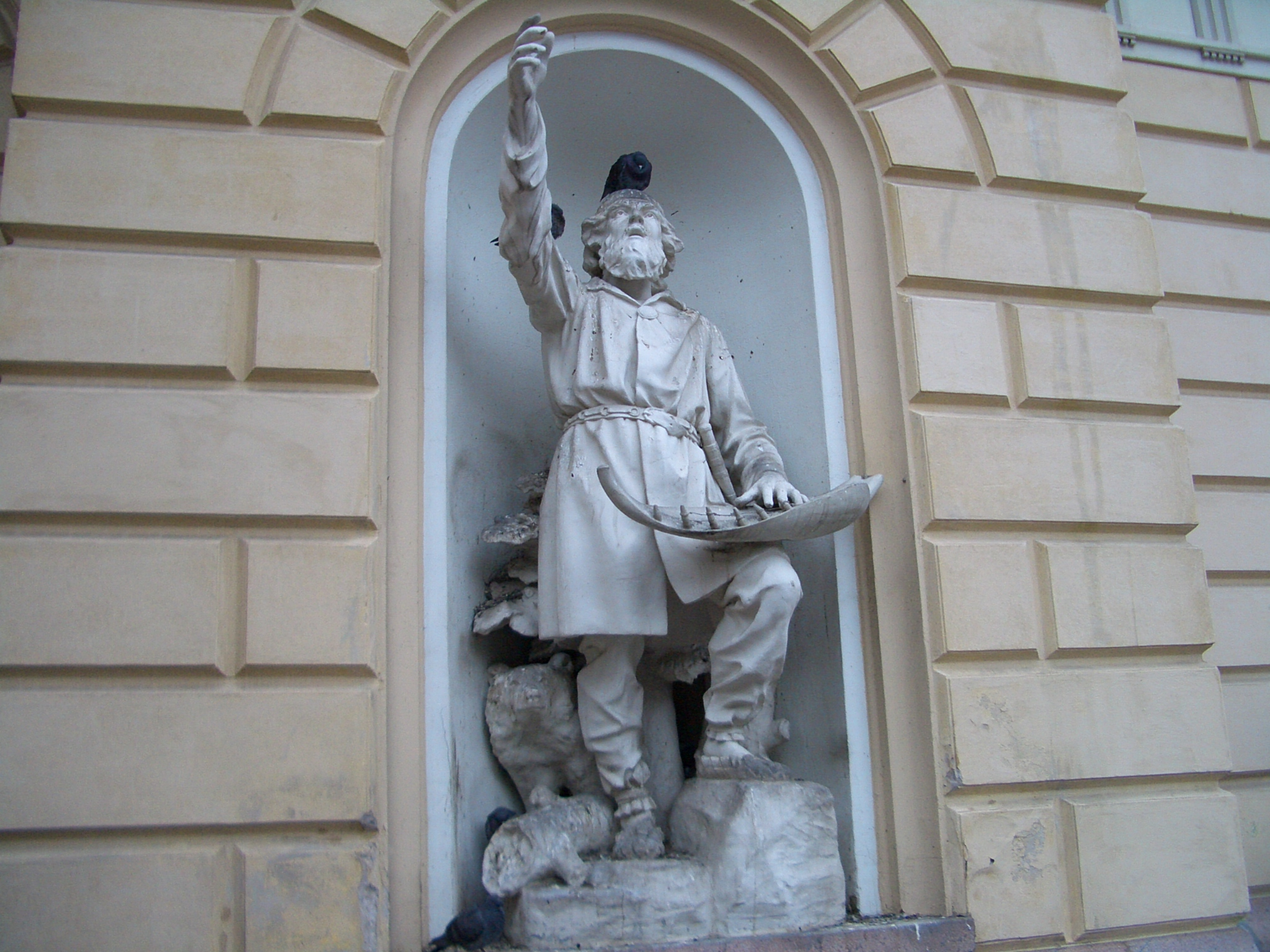 The statue of Väinämöinen (1888) by Robert Stigell (1852–1907) decorating the Vanha Ylioppilastalo (Old Studenthouse) built in 1870 in Helsinki, Finland. The legendary storyteller holds his kantele, made out of a giant pike's jawbone.